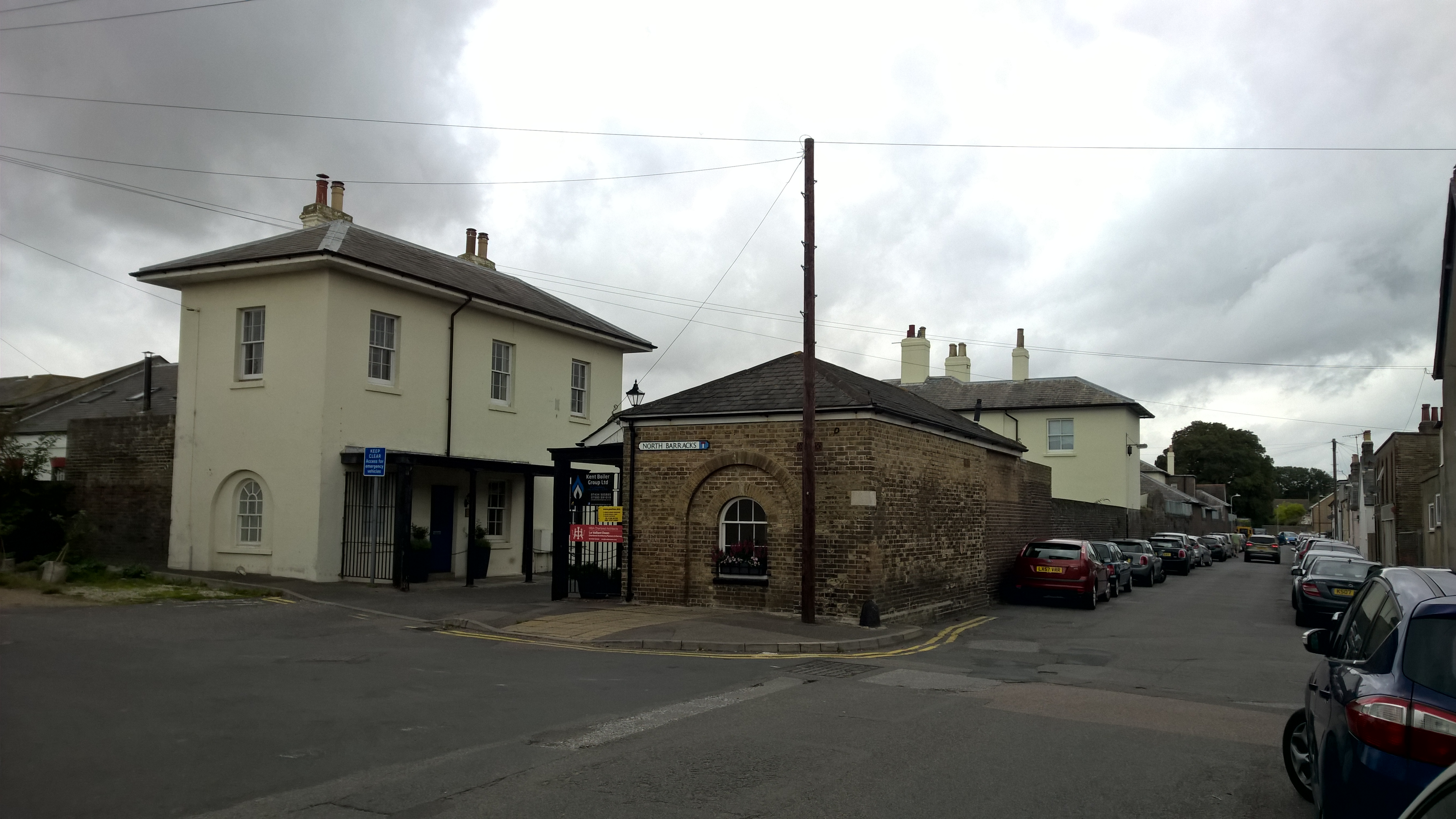 Prison and Warder's Lodging (left) and Post Room (right) flanking the gate to the former North Barracks (now largely demolished).